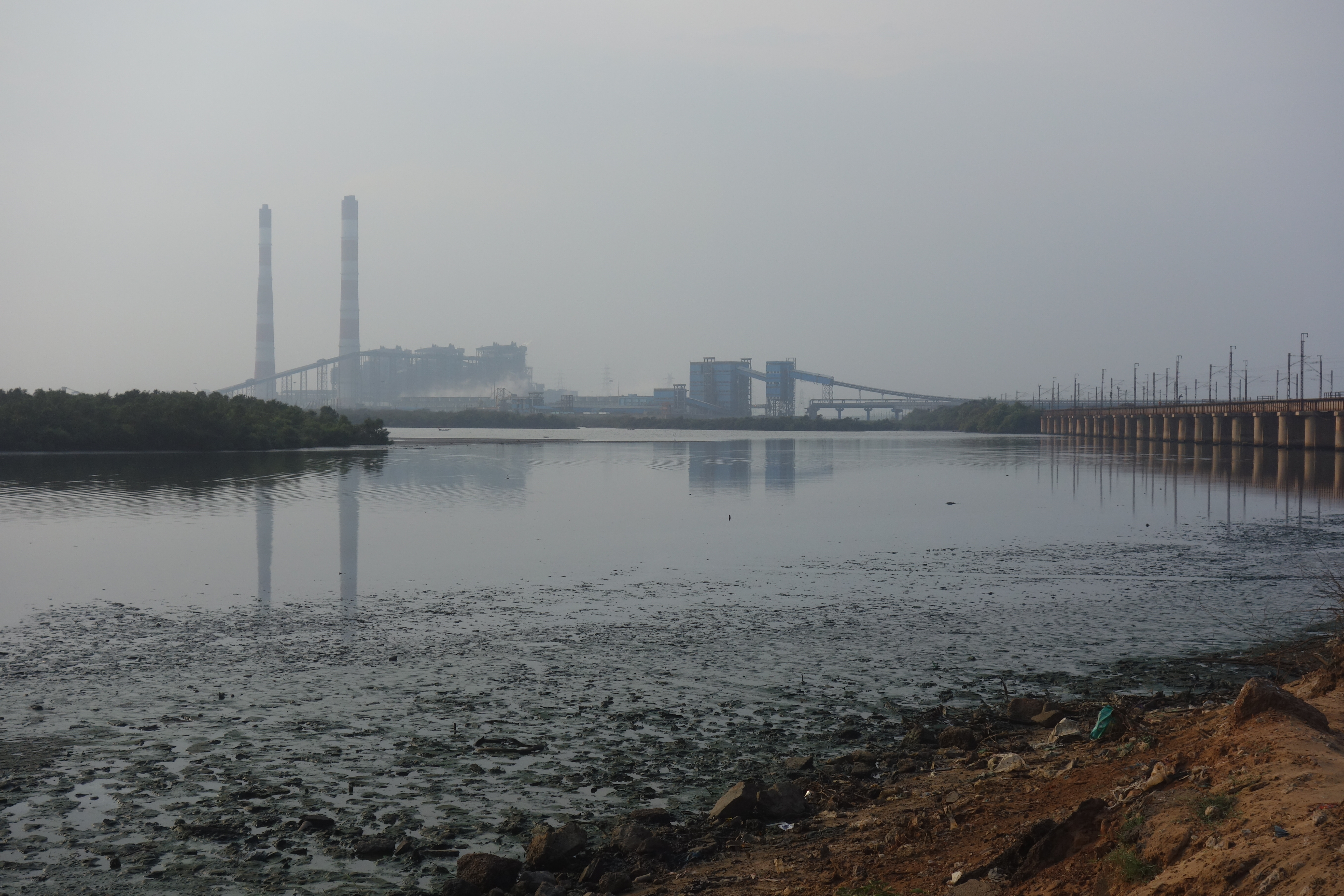 Ennore is heavily industrialised by polluting Industries such as coal fired power plants.